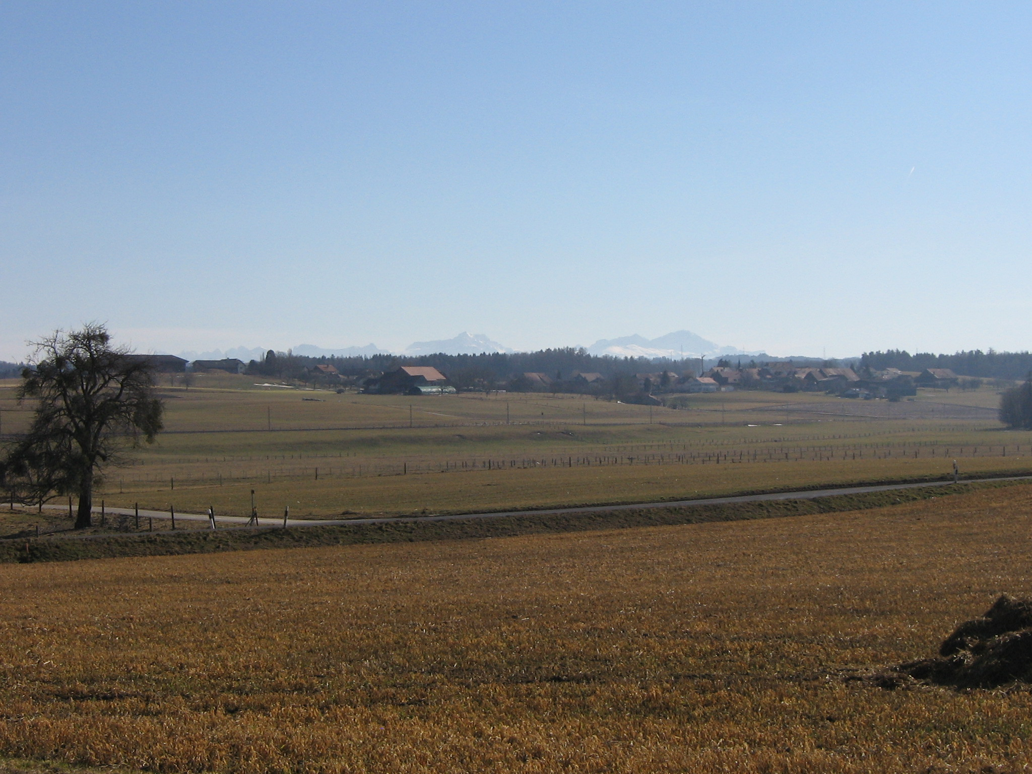 View of the village Sugnens, part of the commune Montilliez, from the lieu-dit Duranel, near Fey.